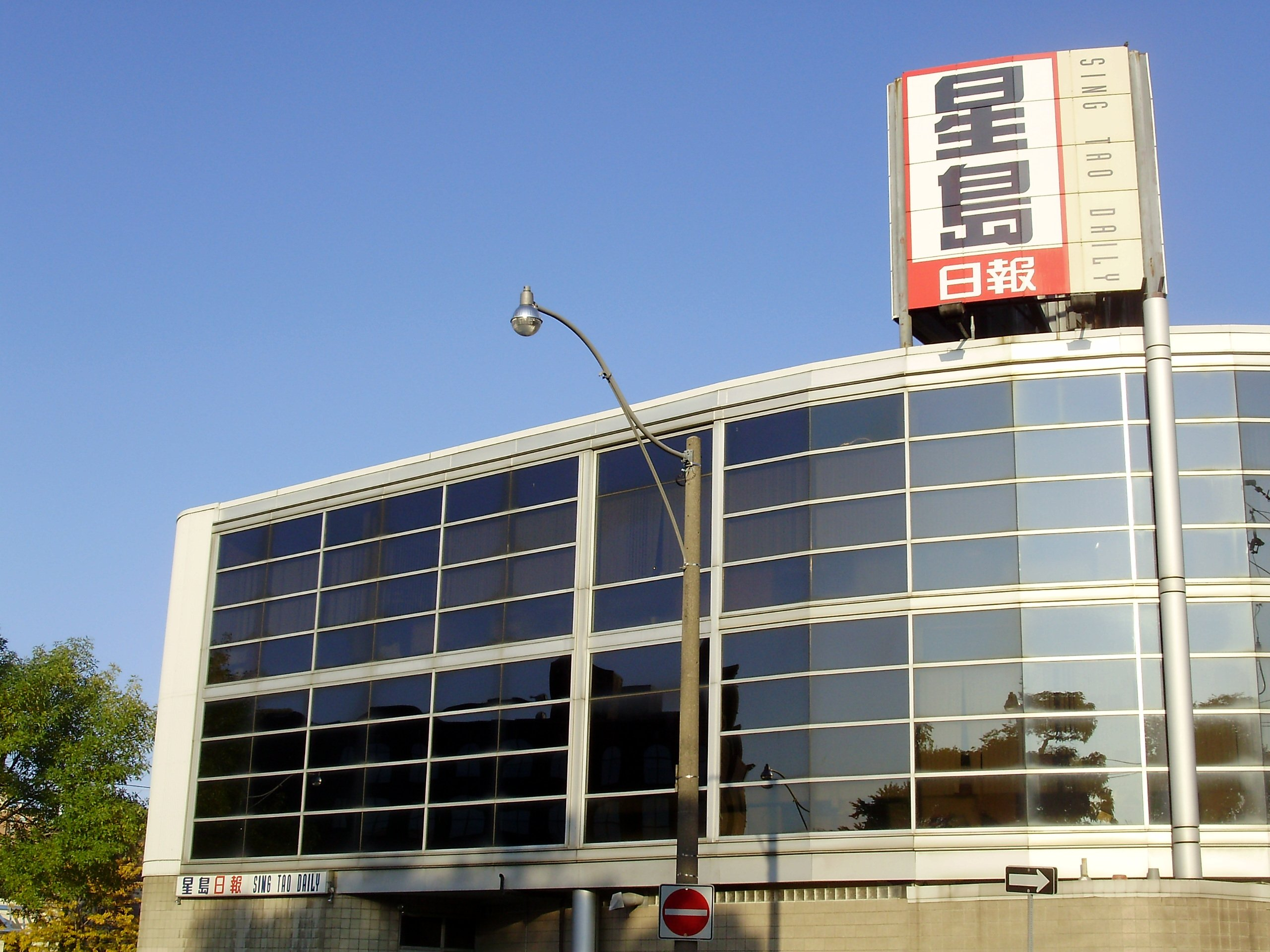 The offices of the Canada Eastern Division of Sing Tao Daily, a daily Chinese language newspaper, on Power Street in Toronto, Ontario, Canada.